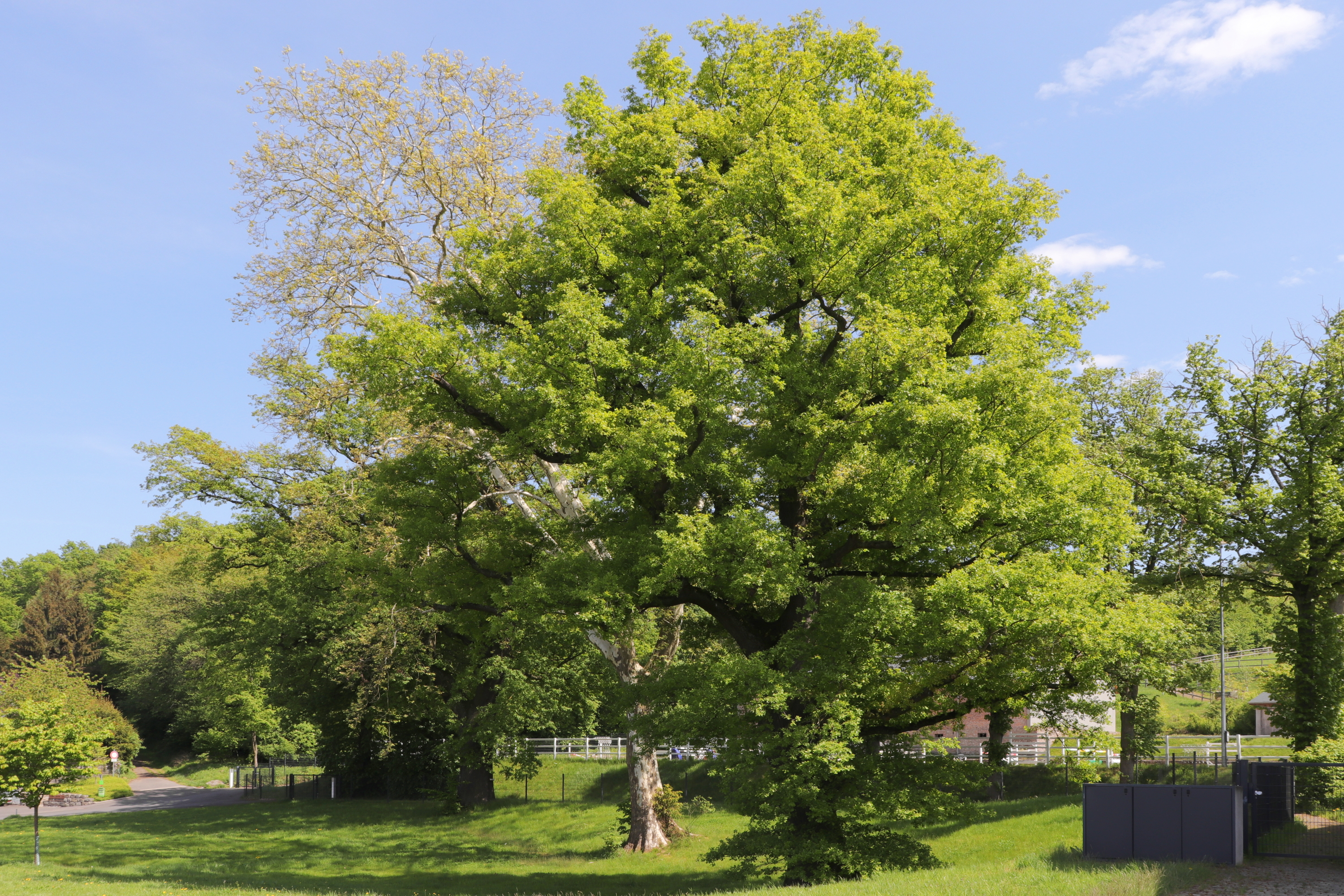 Natural Monument at Goldbach (Unterfranken) near Untergartenhof, consisting of 2 oak trees and 1 plane tree